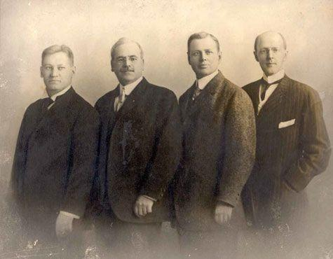 Първата ротарианска четворка. От ляво на дясно са Густавус Лоер, Силвестър Шийл, Хирам Шори и Пол Харис.